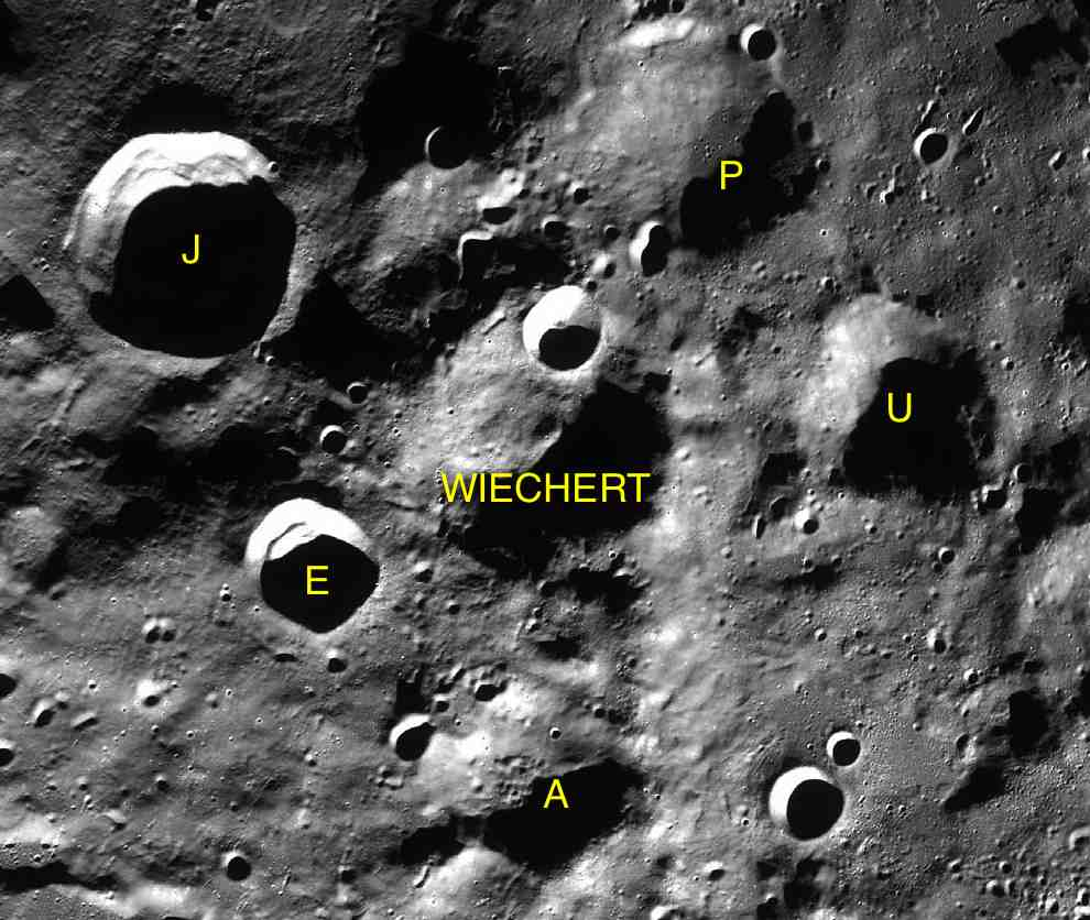 Part of the chart LAC-144 used for the presentation